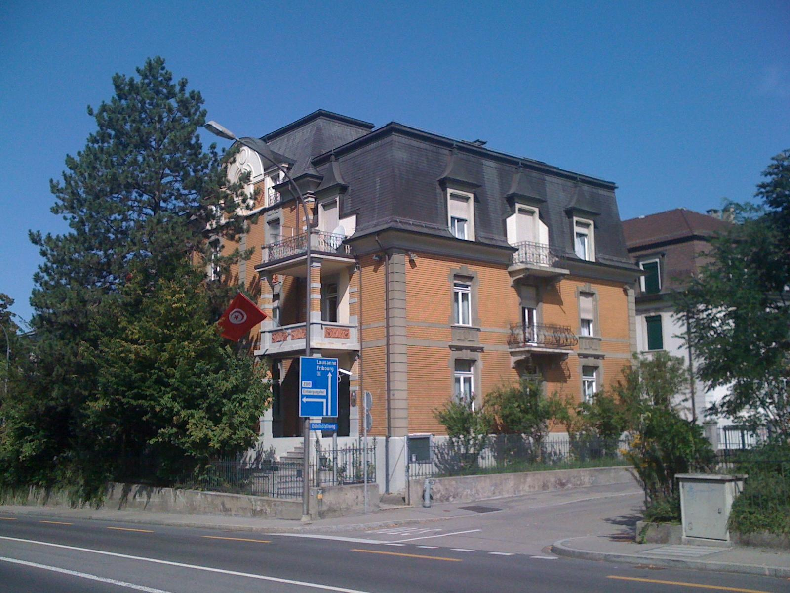 Tunisian embassy in Bern (Switzerland)